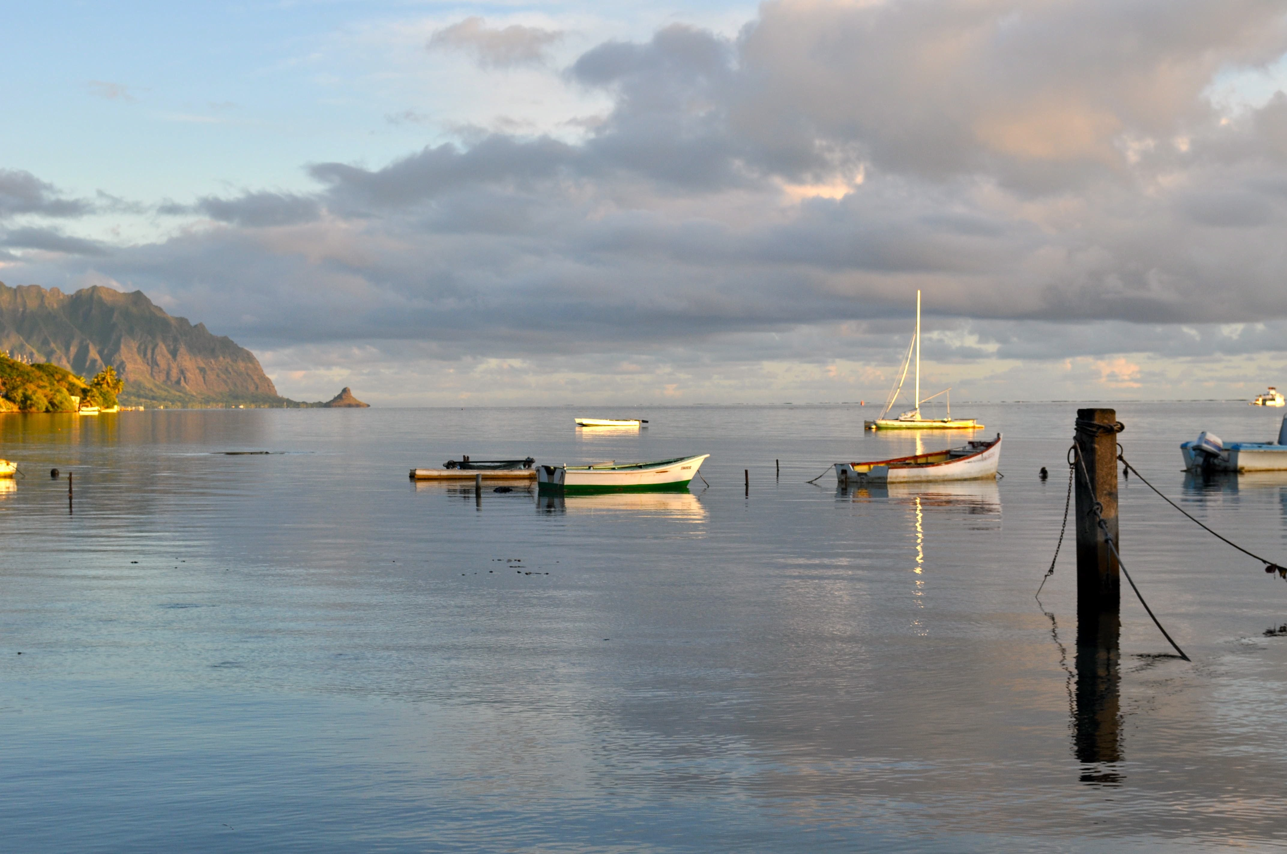 Kaneohe Bay on a calm morning viewed from Heeia Kea Small Boat Harbor Marina pier. Perspective looking north-northwest towards Mokoli'i. Taken with a Nikon D5000 by Jason Turse.